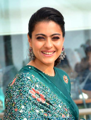 Actress Kajol promoting her film Tanhaji: The Unsung Warrior